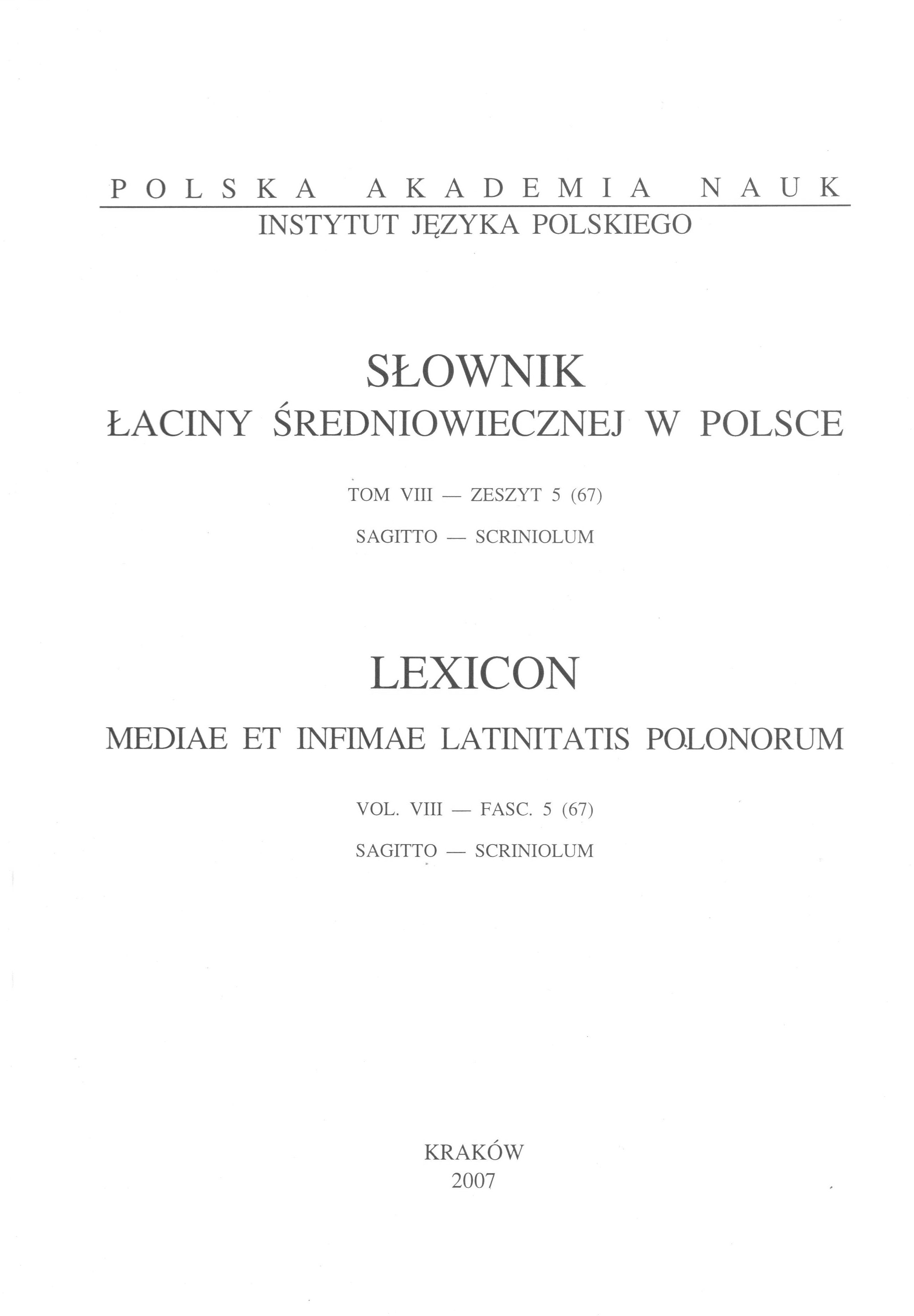 Frontcover (fasc. 67: sagitto-scriniolum)